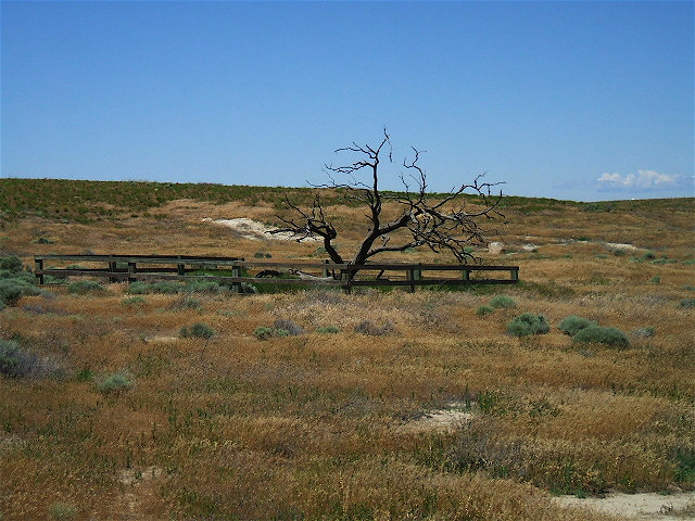 Upper Wells Springs on the Oregon Trail in Morrow County, Oregon. The 7 miles of the trail route within the Naval Weapons Systems Training Facility (NWSTF) Boardman have been listed on the US National Register of Historic Places.